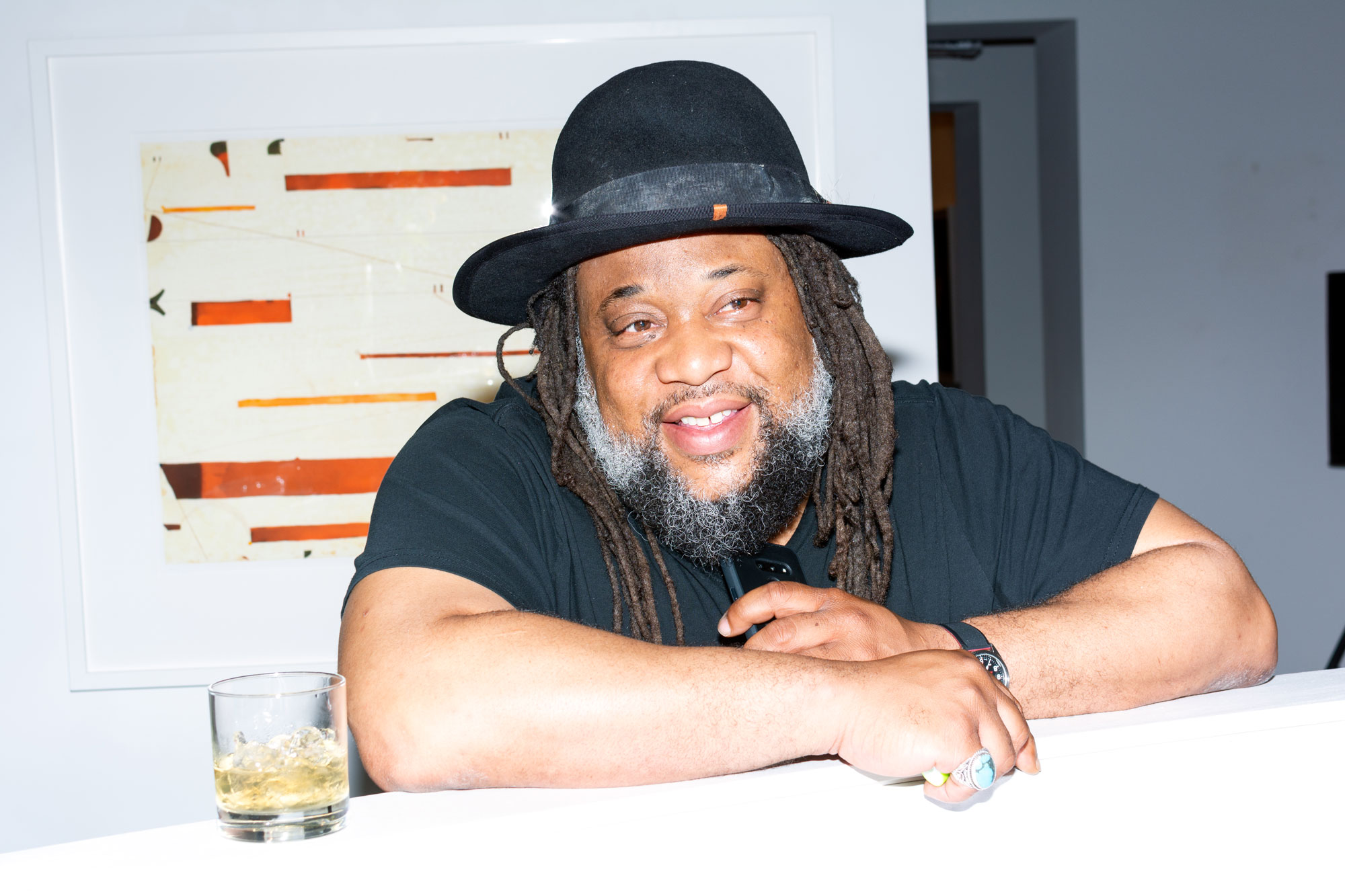 Michi Meko during his solo exhibition, Out Here by Myself. Photo by Benjamin Deaton.